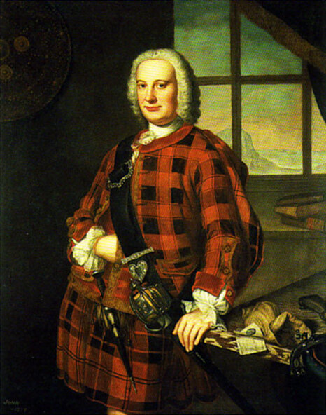 Portrait of John Campbell (c.1703-1777), Banker and Lawyer. The present official Clan Campbell tartans are green.